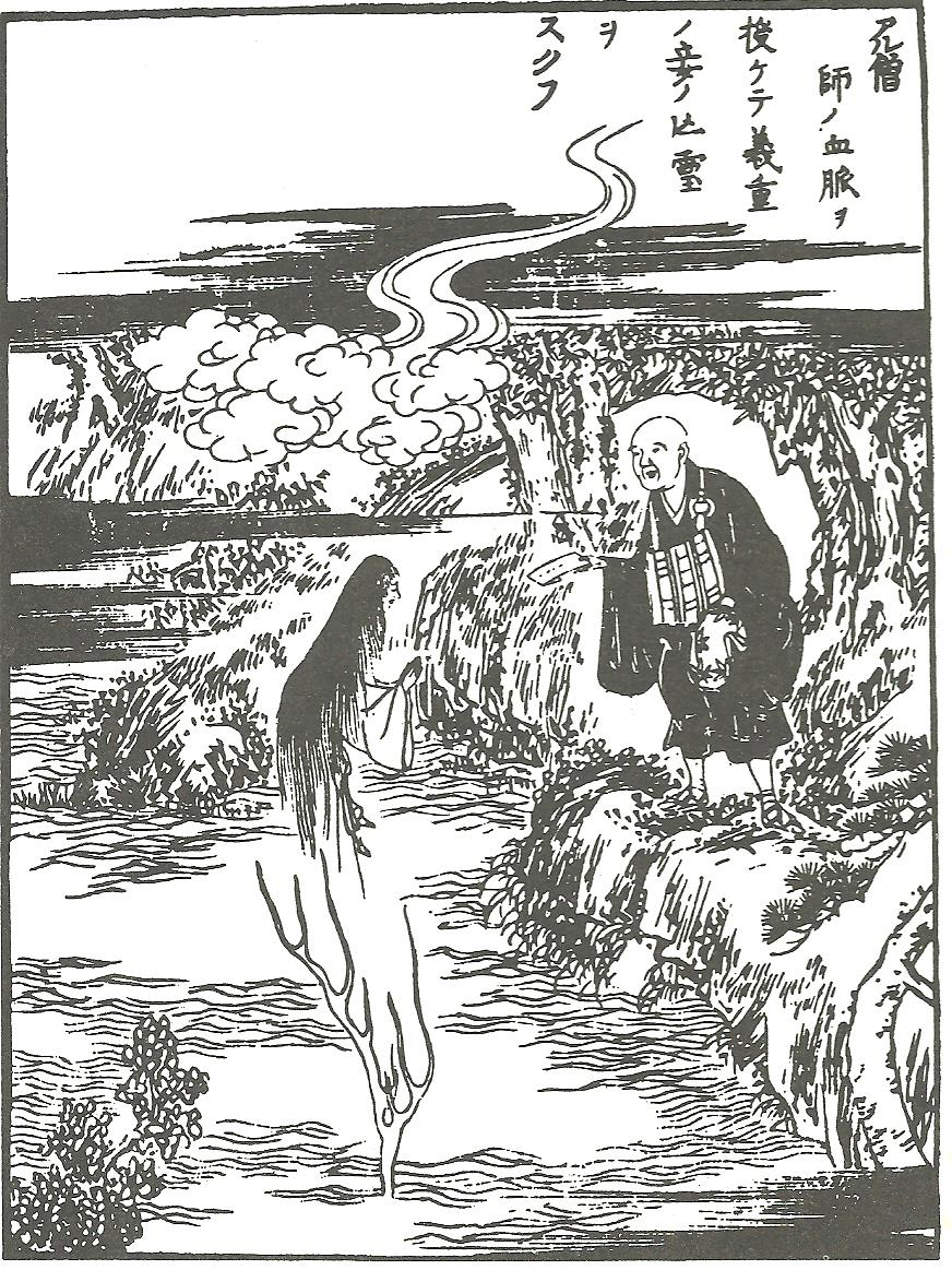 Administering the Precepts to a Ghost